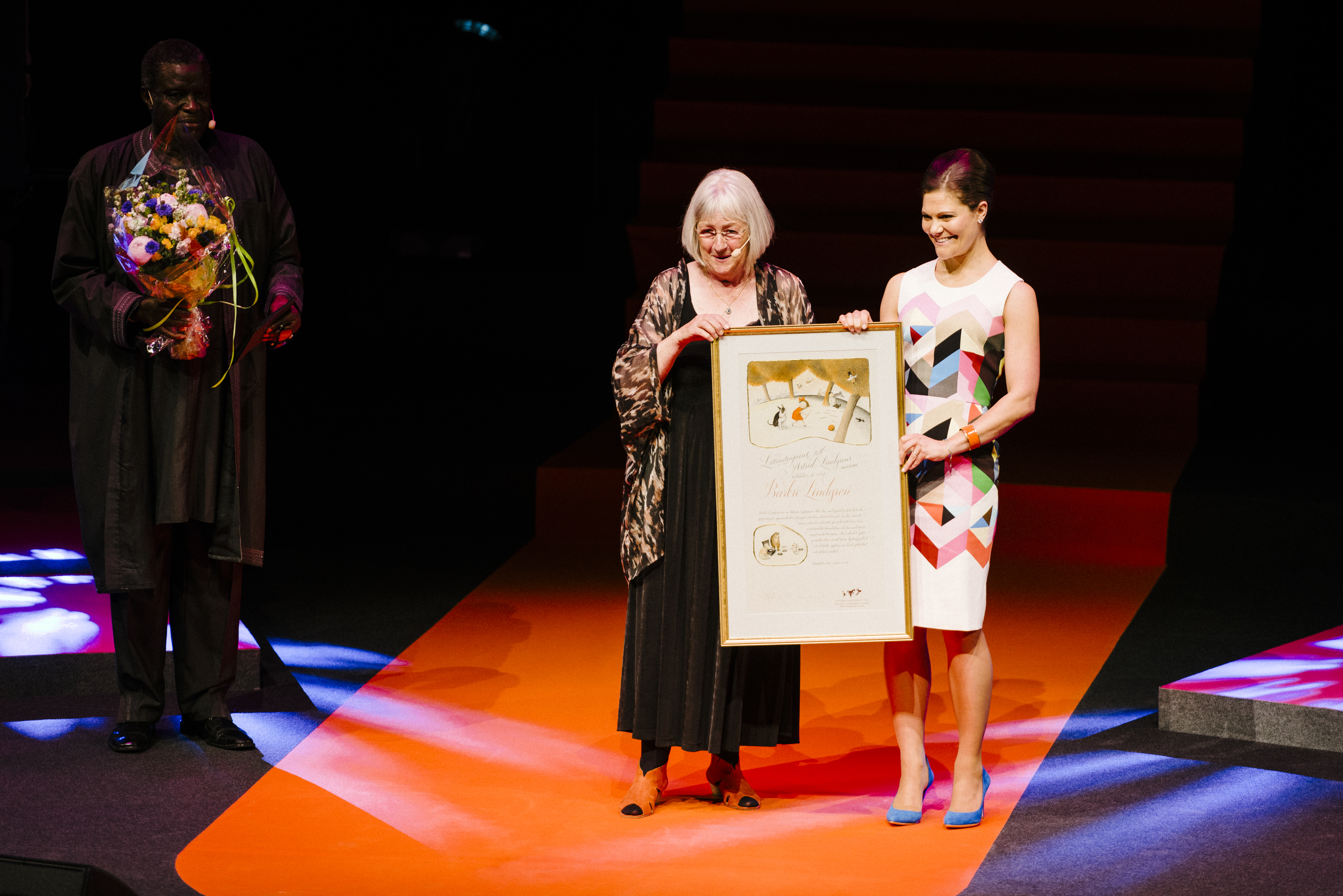 Crown Princess Victoria of Sweden presents the 2014 Astrid Lindgren Memorial Award (ALMA) to author Barbro Lindgren.